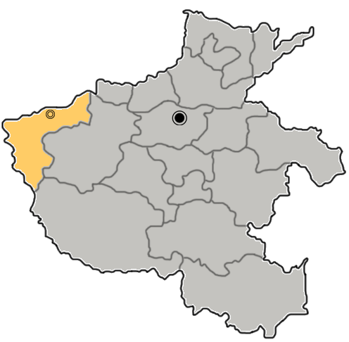 The prefecture-level city of Sanmenxia is highlighted on this map of Henan province, People's Republic of China.